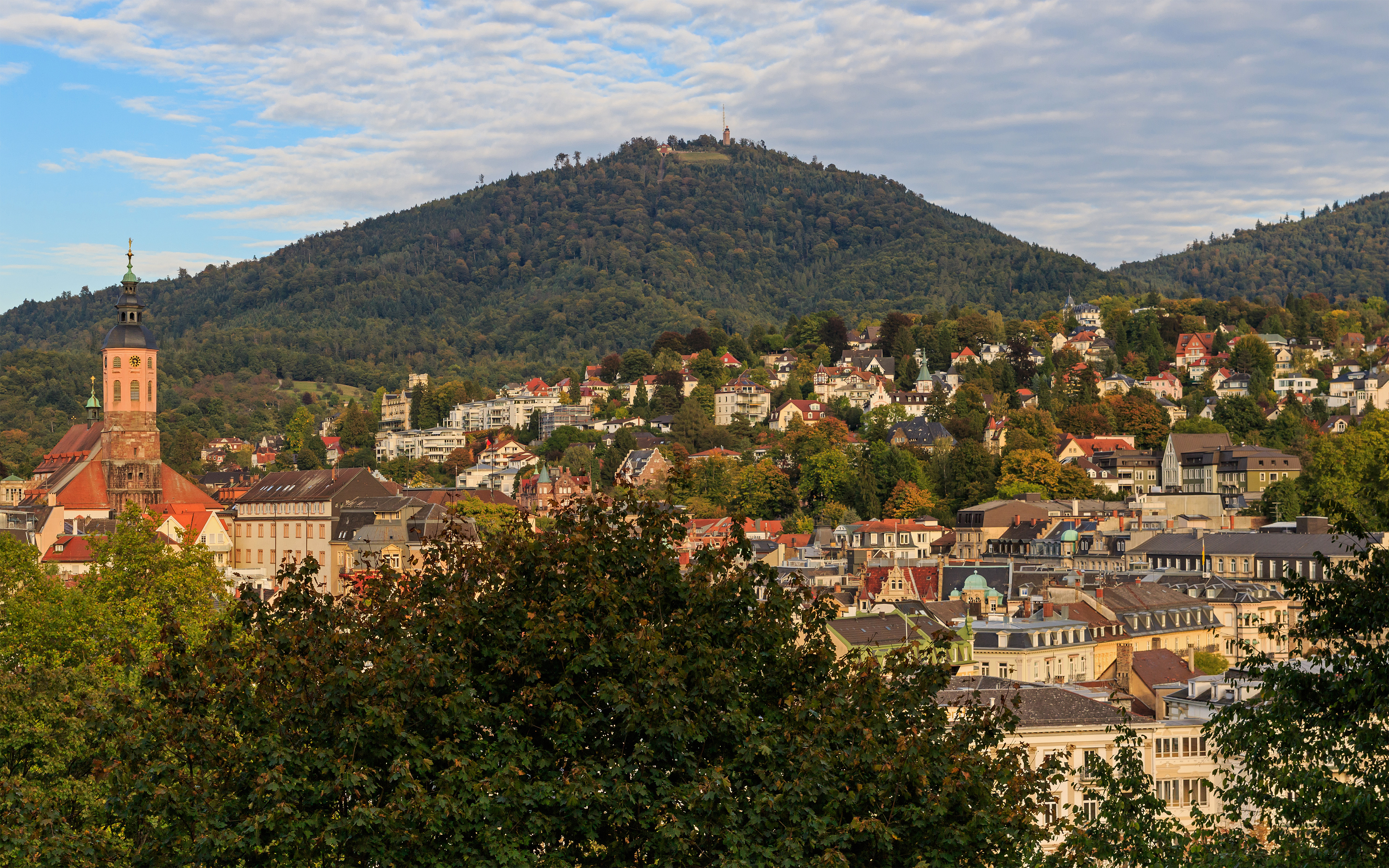 View from the Kurpark in Baden-Baden (BW, Germany).